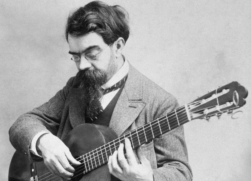 Francisco Tárrega - was a Spanish composer and guitarist of the Romantic period.